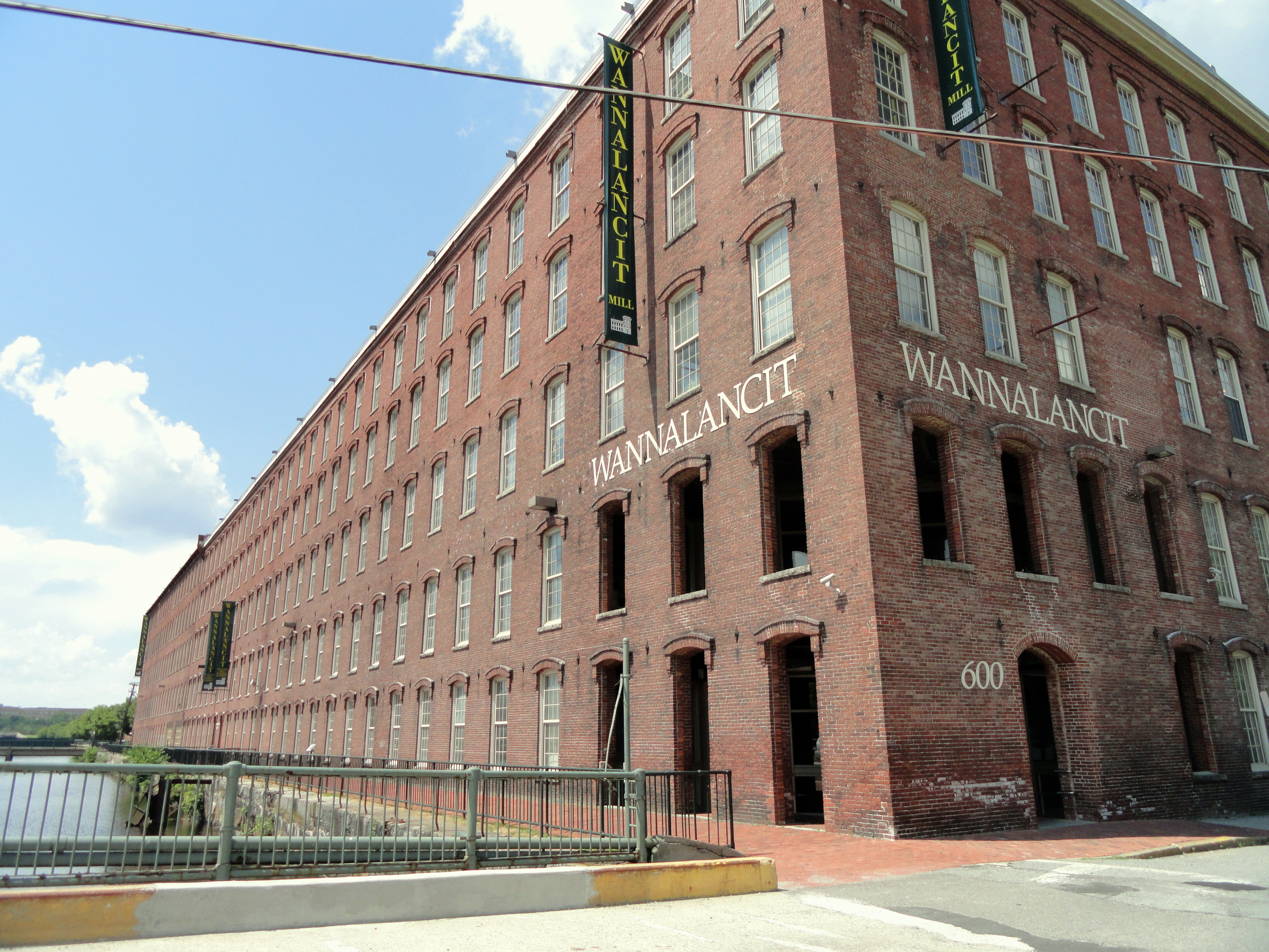 View of University of Massachusetts Lowell, Lowell, Massachusetts, USA.